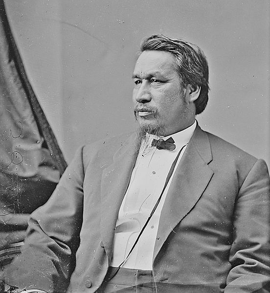 Ely S. Parker